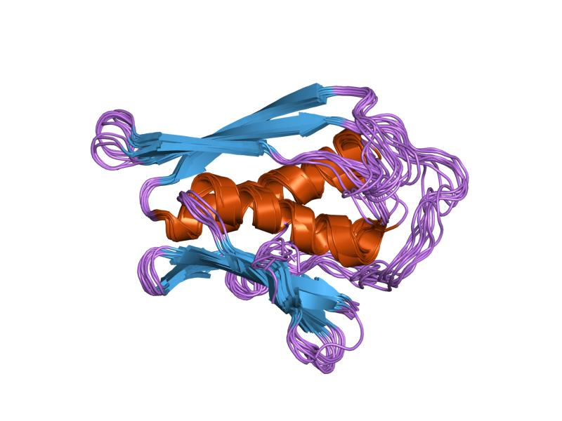 Cartoon representation of the molecular structure of protein registered with 1jw3 code.